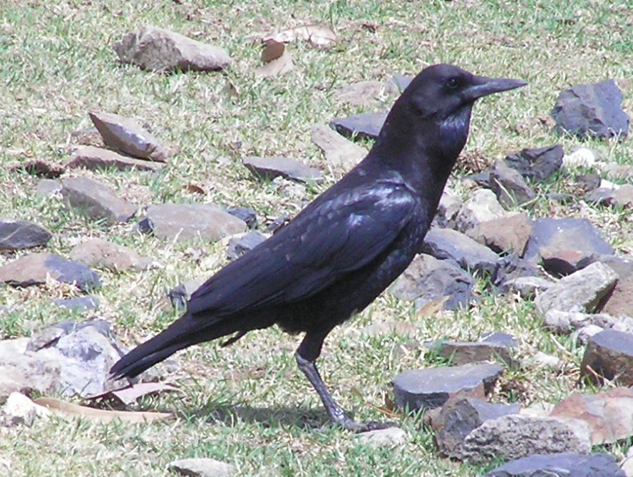 Corvus capensis, Debre Berhan, Ethiopia